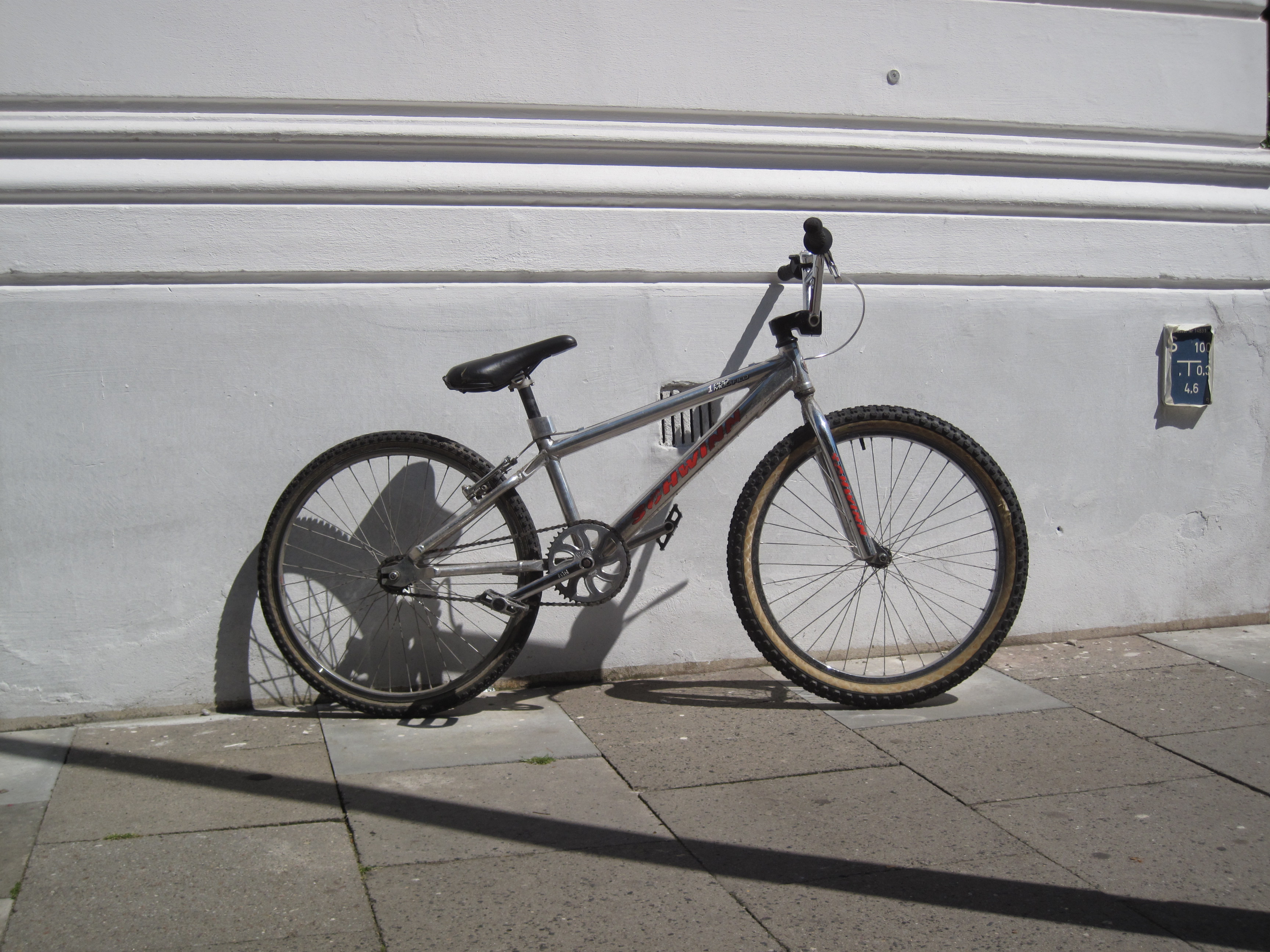 A Schwinn "1 Pro Modified" 24-inch BMX Cruiser. Typical features of a Race BMX are the lack of a front brake and the different tire sizes. The front tire is bigger for better traction, the rear tire is smaller to achieve less rolling resistance. (Note: this last comment is not true. Smaller wheels have more rolling resistance. --VanBuren (talk) 14:53, 13 May 2010 (UTC)